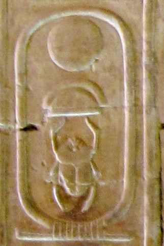 Cartouche 62, Abydos King List. Temple of Seti I, Abydos, Egypt